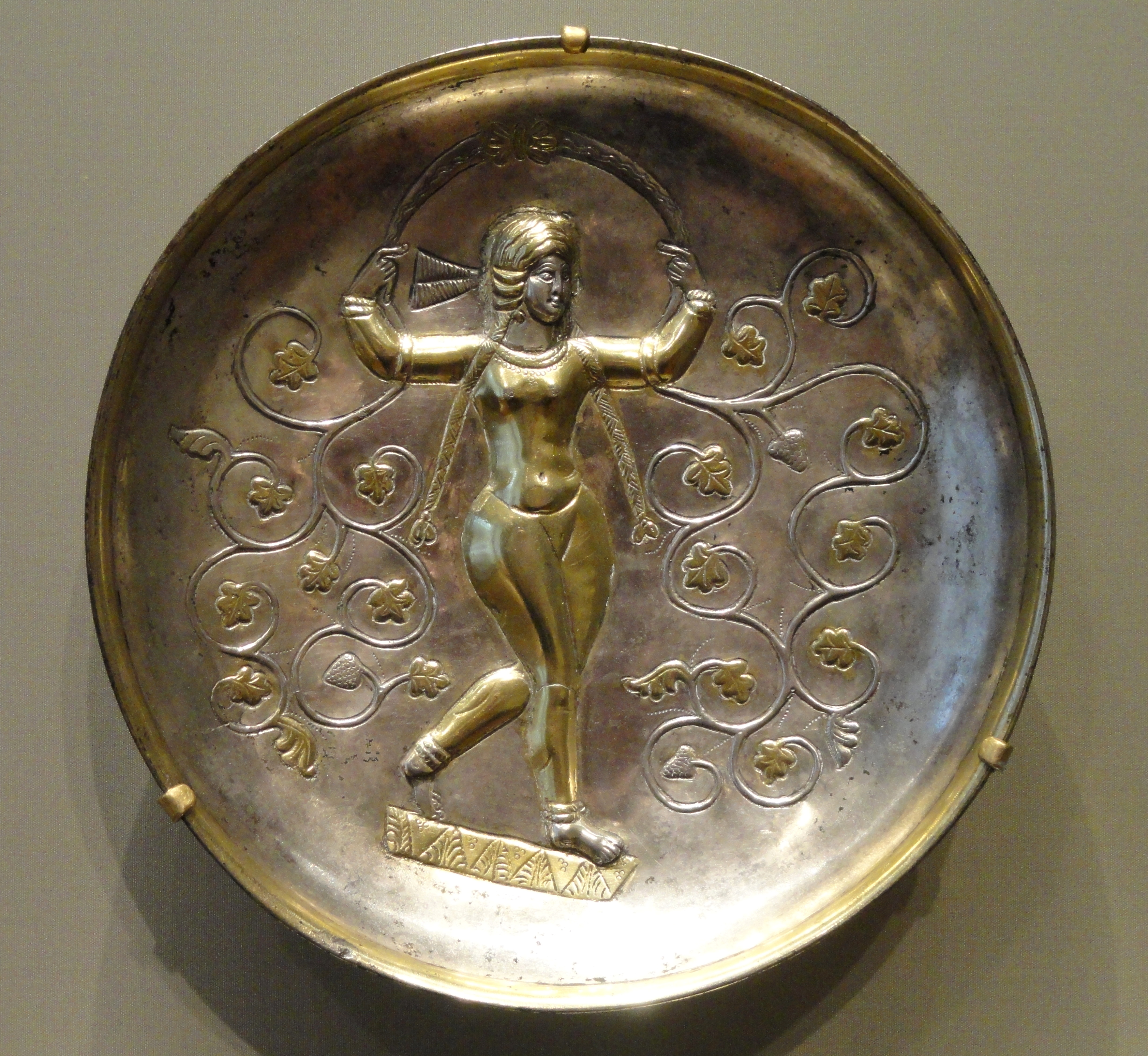 Anahita Dish, 400-600 AD, Sasanian dynasty, Iran, silver and gilt.